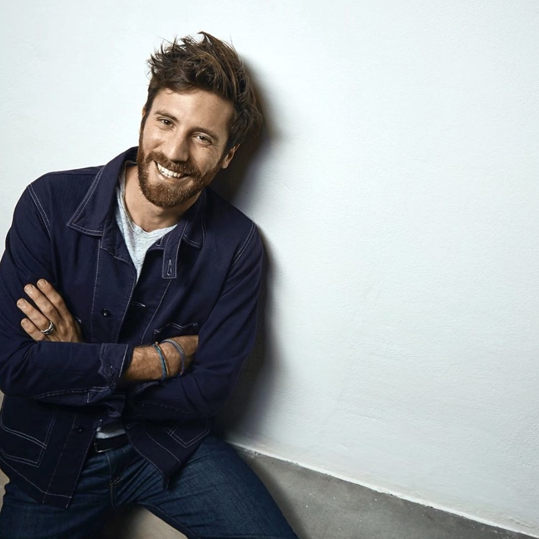 Nicolò De Devitiis - Italian TV personality